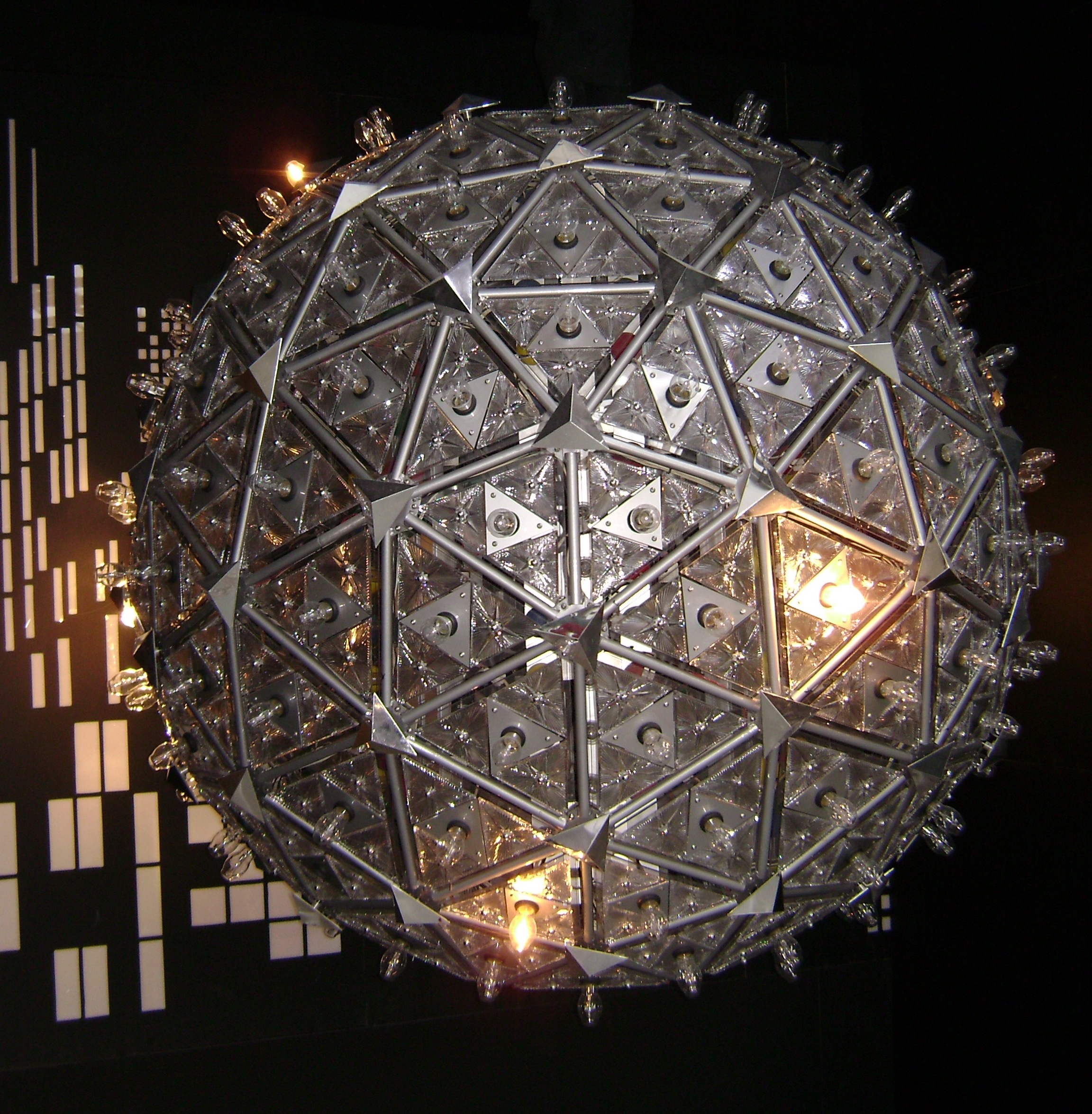 The Times Square Ball designed for the new millennium in 2000, on display at the Waterford Crystal Factory.